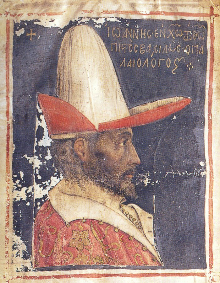 Portrait of the Byzantine Emperor John VIII Palaiologos (r. 1425-1448). Original at the library of the Holy Monastery of Saint Catherine, Sinai. Image pasted into Codex 2123 fol. 30v. The Greek legend reads: "John, in Christ the God faithful Emperor, the Palaiologos".